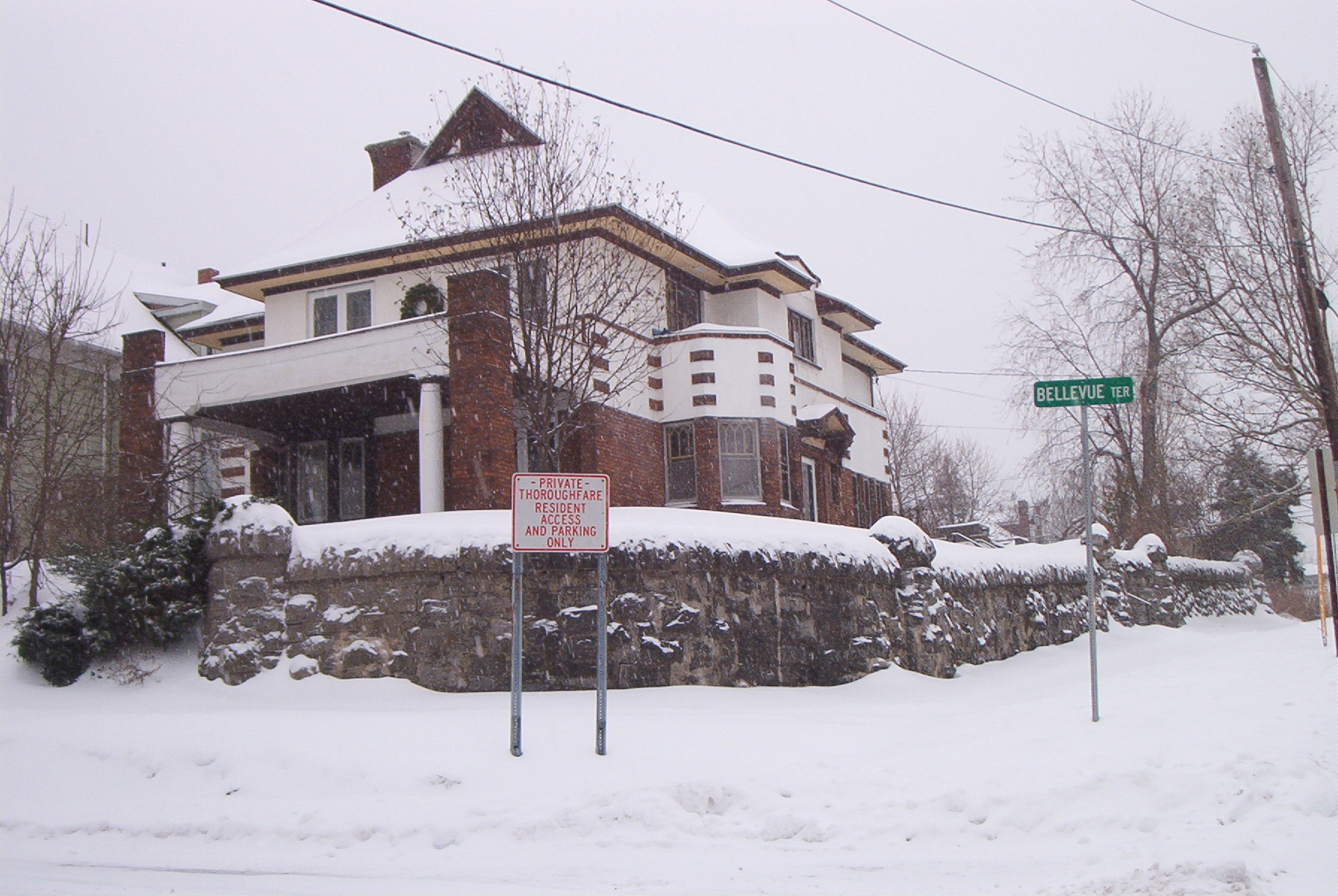 Fairchild House, 111 Clairmonte Avenue, Syracuse, New York. Pic 2.